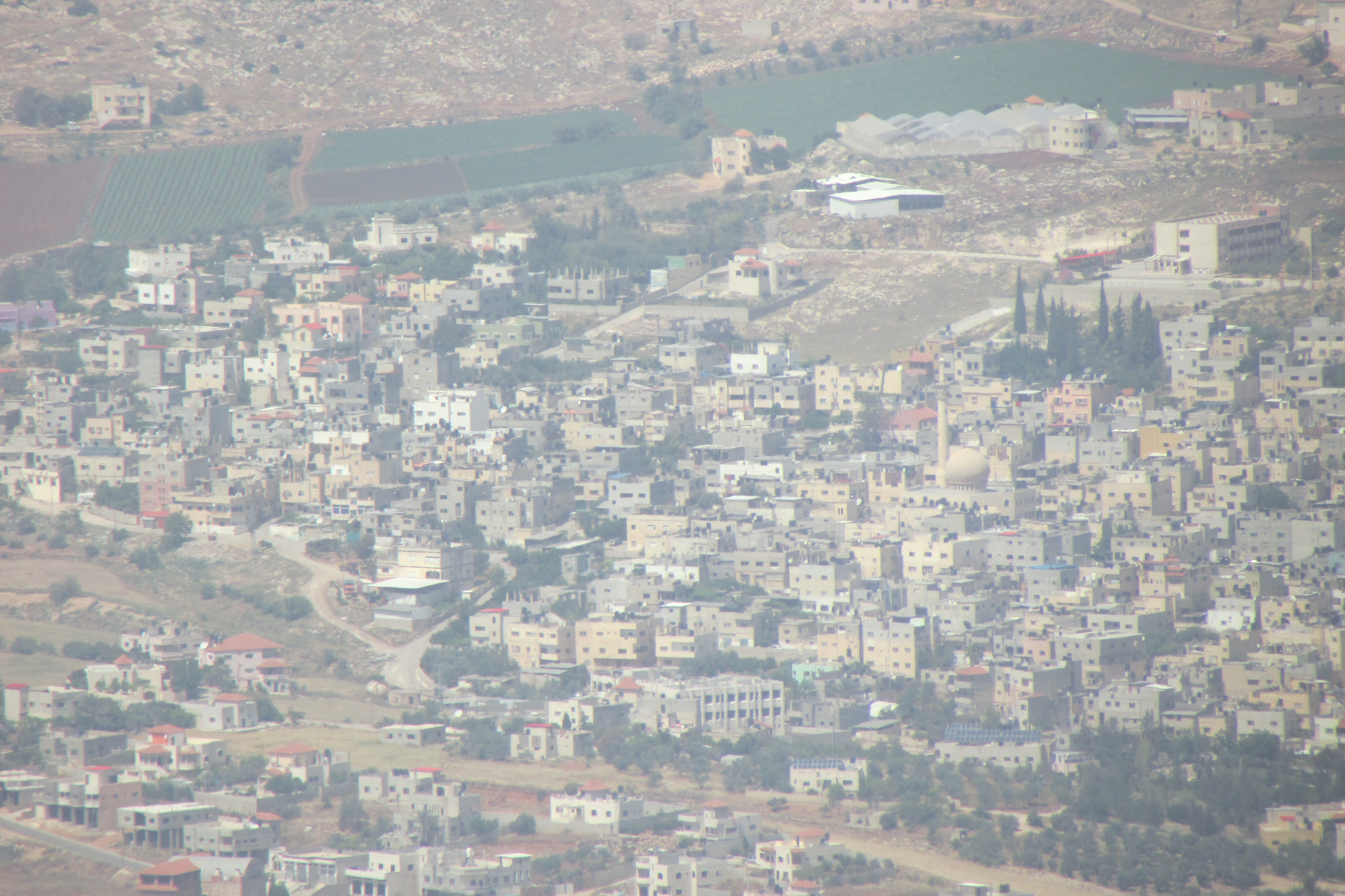 Far'a refugee camp